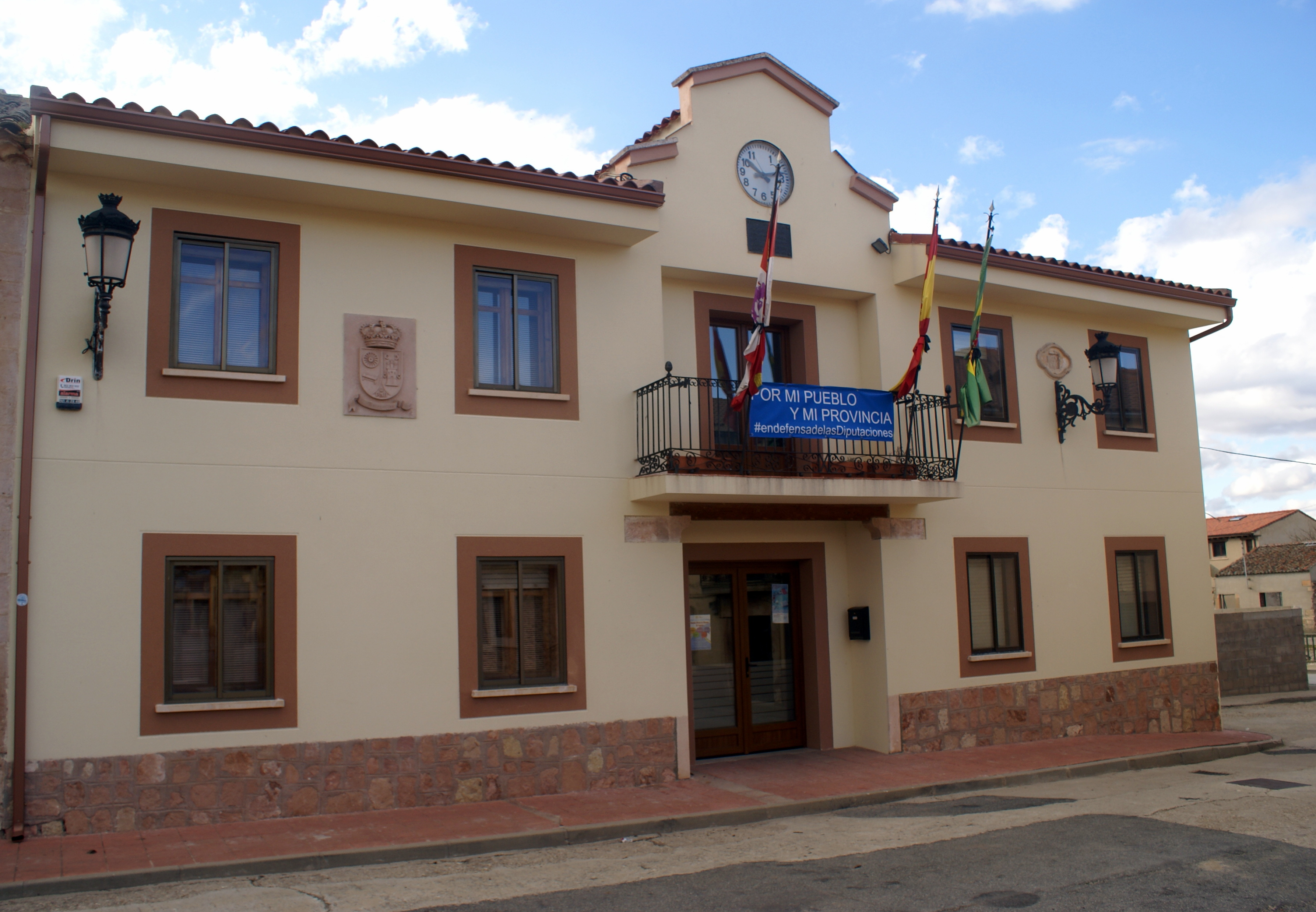 Town hall of Boceguillas, Segovia, Spain.